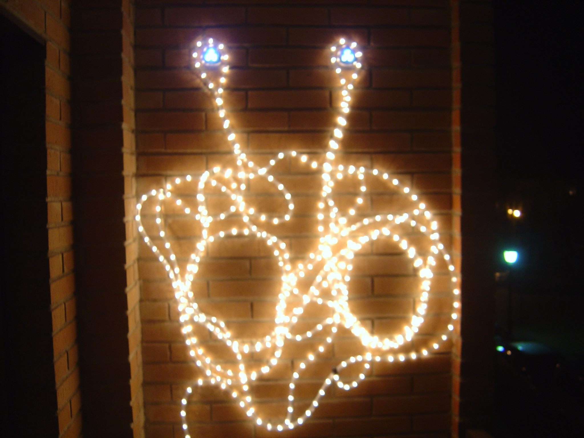 Christmas lights representing the Flying Spaghetti Monster.